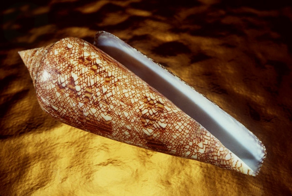 The Glory of the Sea shell, Conus gloriamaris Chemnitz, 1777[1]; from the collections of the National Museum of Natural History. Image by Smithsonian Institution; posted on Flickr by . Larger and darker image than the original.